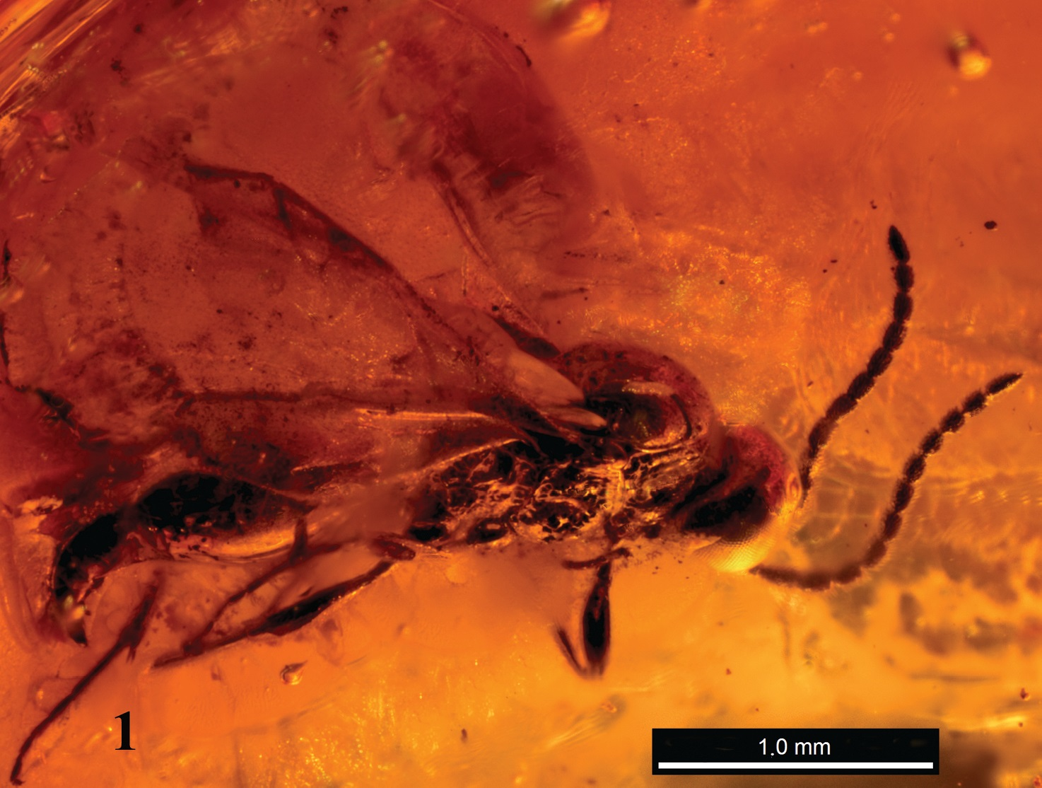 Disogmus rasnitsyni, sp. n., male holotype. 1 body, dorsolateral view